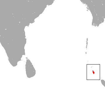 Nicobar Treeshrew (Tupaia nicobarica) range